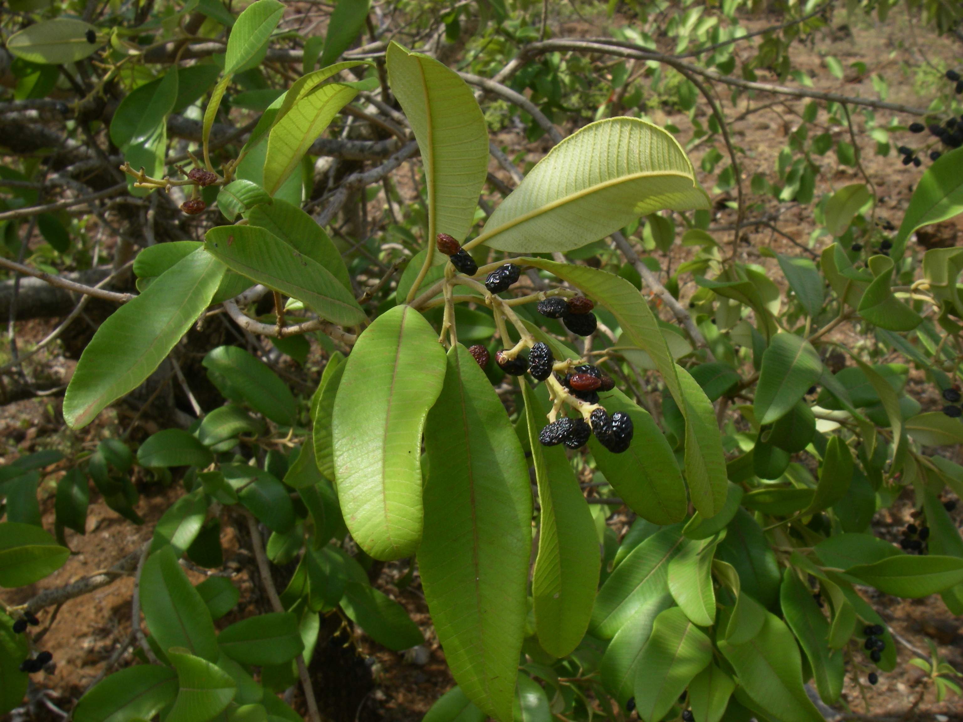 Fruiting Ozoroa insignis